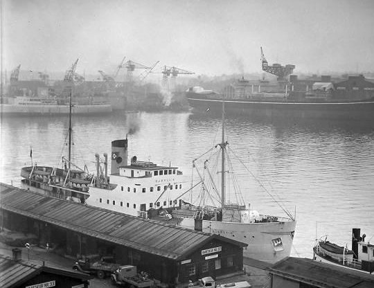 Norwegian steamship SS Bjørgvin, built in 1910